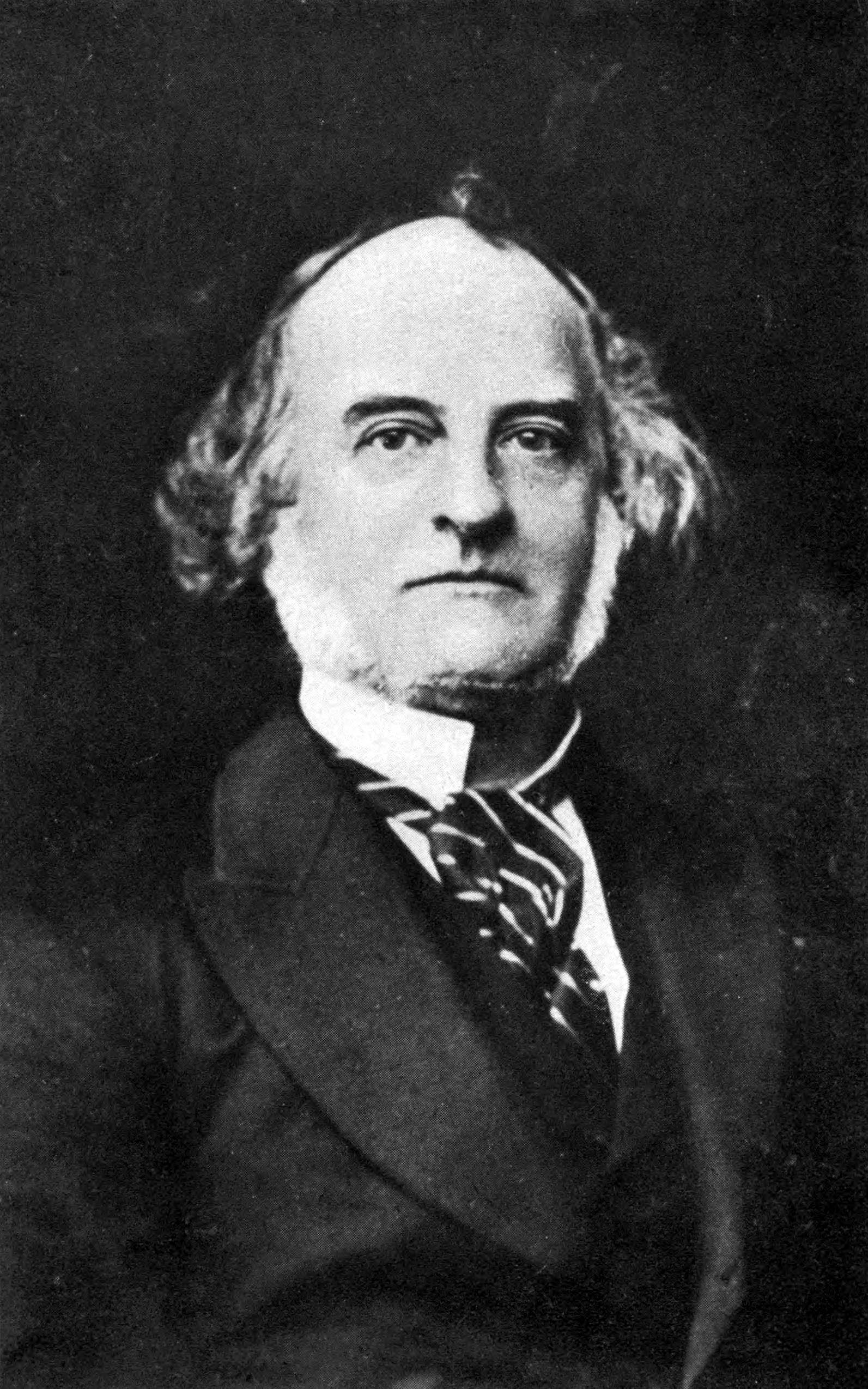 Photograph of United States librarian and bibliographer Samuel Austin Allibone.